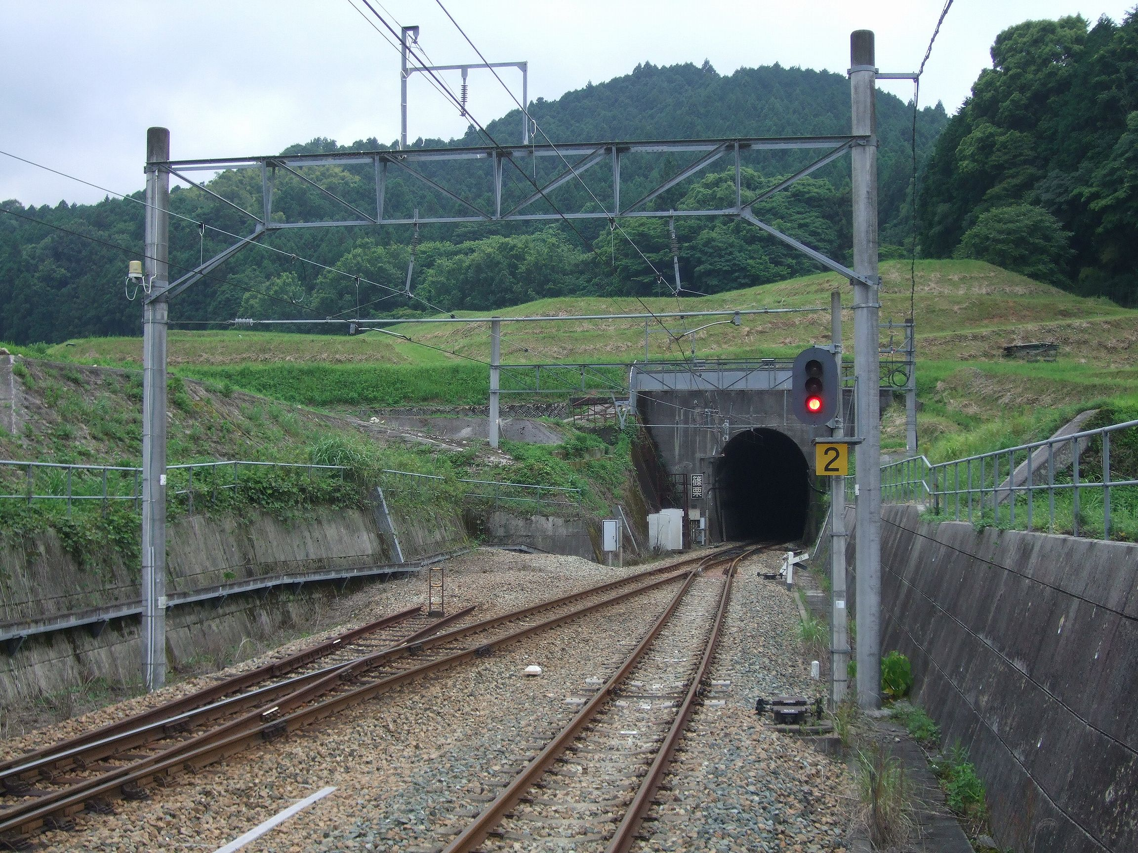 Sasaguri Line Sasaguri Tunnel east side entrance, Iizuka City, Fukuoka, Japan.